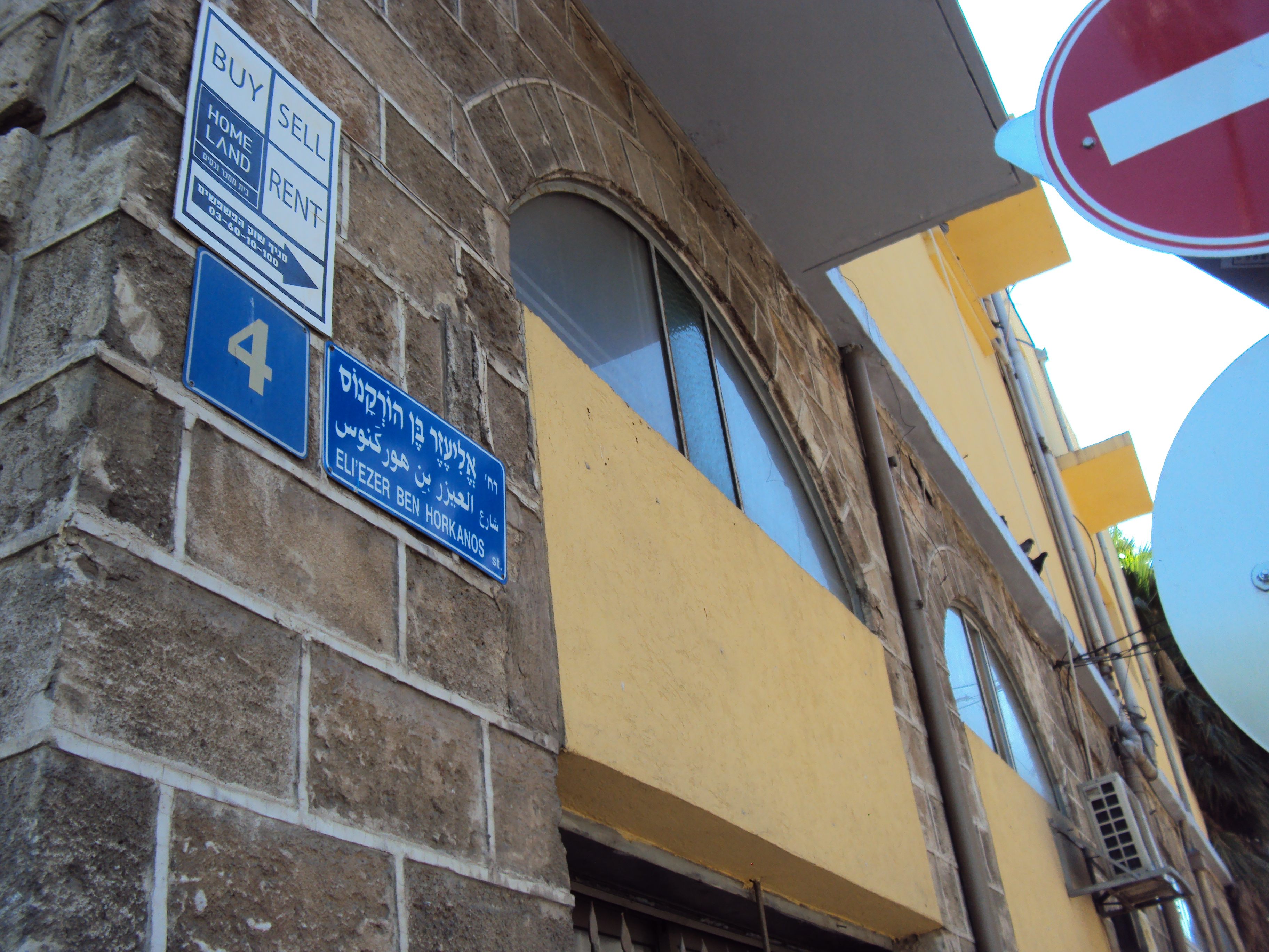 Israel, Jaffa, Ben Horkanos St 4, corner of Sderot Yerushalayim.